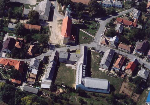 Városlőd, Hungary, aerialphotgraphy